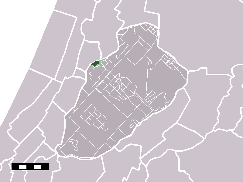 Map of Cruquius, municipality of Haarlemmermeer, the Netherlands. Image by User:Eugene van der Pijll. Boundaries municipalities and neighbourhoods: © 2003, Centraal Bureau voor de Statistiek/Topografische Dienst Kadaster Boundary village: © 2005, Centraal Bureau voor de Statistiek